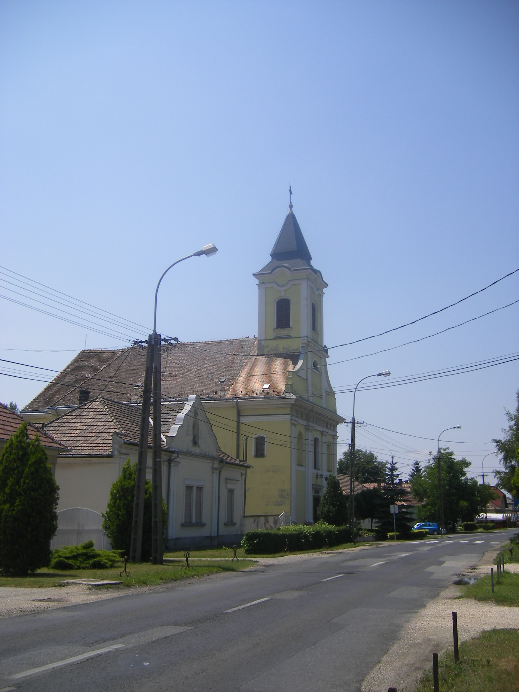 Alsógalla (part of Tatabánya), Immaculate Conception and Saint Gall church